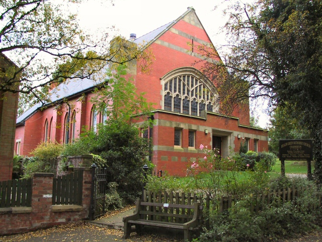 Heald's Green Methodist Church, in Chadderton, Greater Manchester, England. Healds Green is a quiet suburban area tucked away above Chadderton Fold, only a few hundred yards from a busy motorway - the topography shelters it well from the noise.